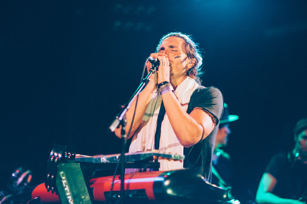 Austin Bis